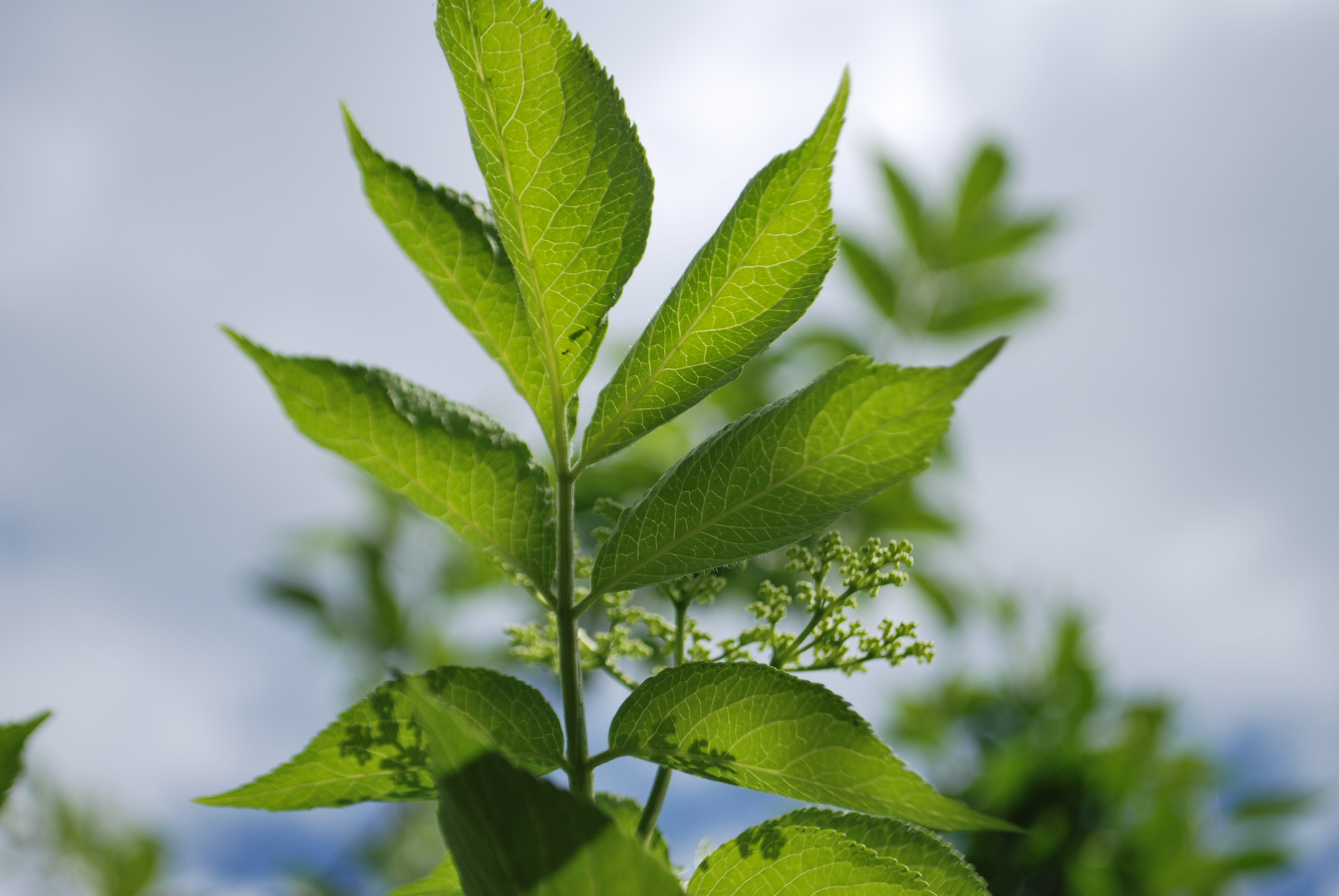 Plants in Rogačevo, Macedonia